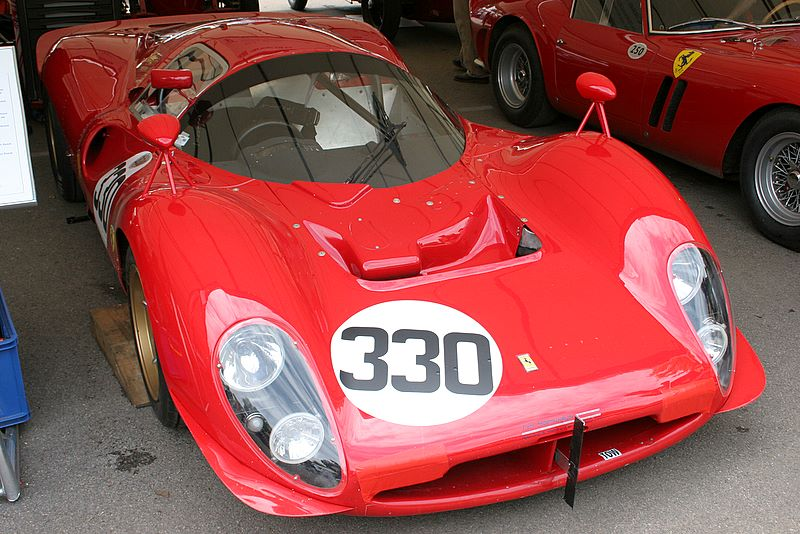 Description: Ferrari 330 P3 Source: Original photograph by Peter Howkins Date: 23 June 2007 Location: Goodwood Festival of Speed, Goodwood House, Sussex, UK. Author: Peter Howkins (wikipedia ID: Flibble) Permission: Creative Commons Attribution 2.5 license Other versions of this file: Camera was Canon EOS 20D Lens was Canon EF 70-210mm f/3.5-4.5 USM